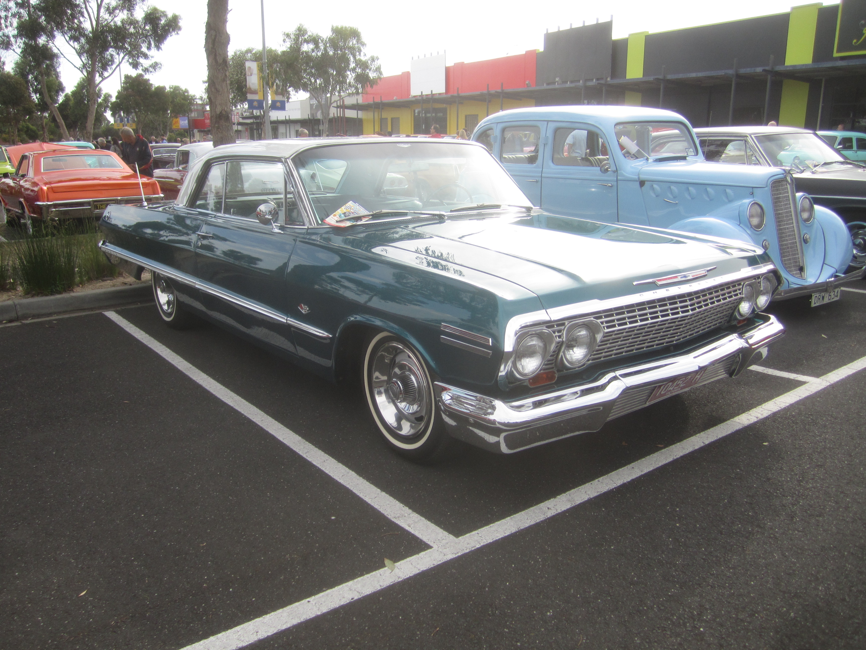 All sheetmetal, except the doors, was changed for 1962, a more conservative looking car. 1963 was just a mild facelift, slightly different grille and bumpers. Base model was still the Biscayne, mid spec: Bel Air and top the Impala with triple round tail lights (double on Biscayne and Bel Air). Super Sport option . Available in Sedan, 2 and 4 door Hardtops, Coupe and Wagon. Chevrolets were also produced in Australia by General Motors using modified American bodies from 1926-68. Engines; 235 6 cyl, 283, 327 and 409 V8s